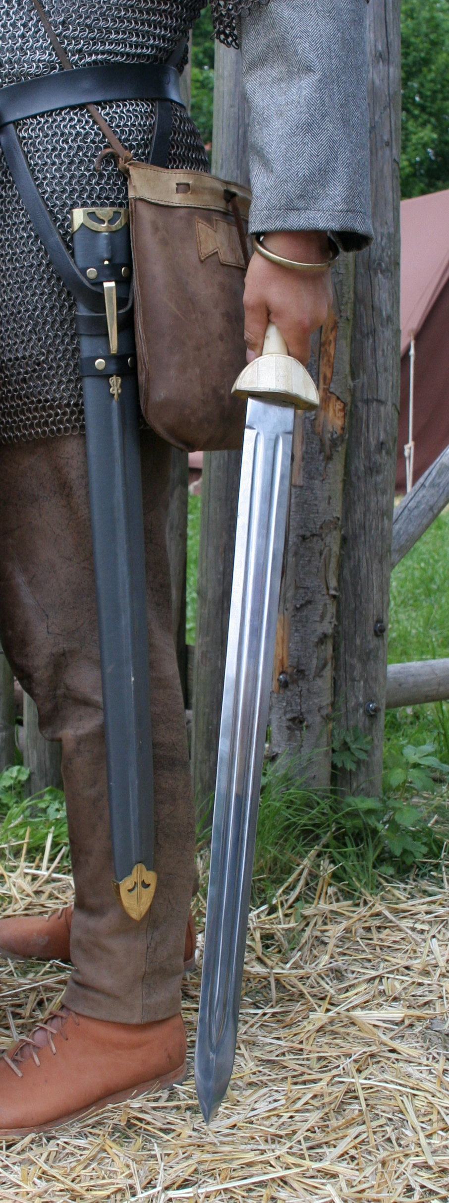 Spatha, the soldier is dressed A Roman era reenactor holding a replica of a Late Roman (4th century) spatha, made by Deepeeka, India[1] Photographed by myself during a show of Legio XV from Pram, Austria